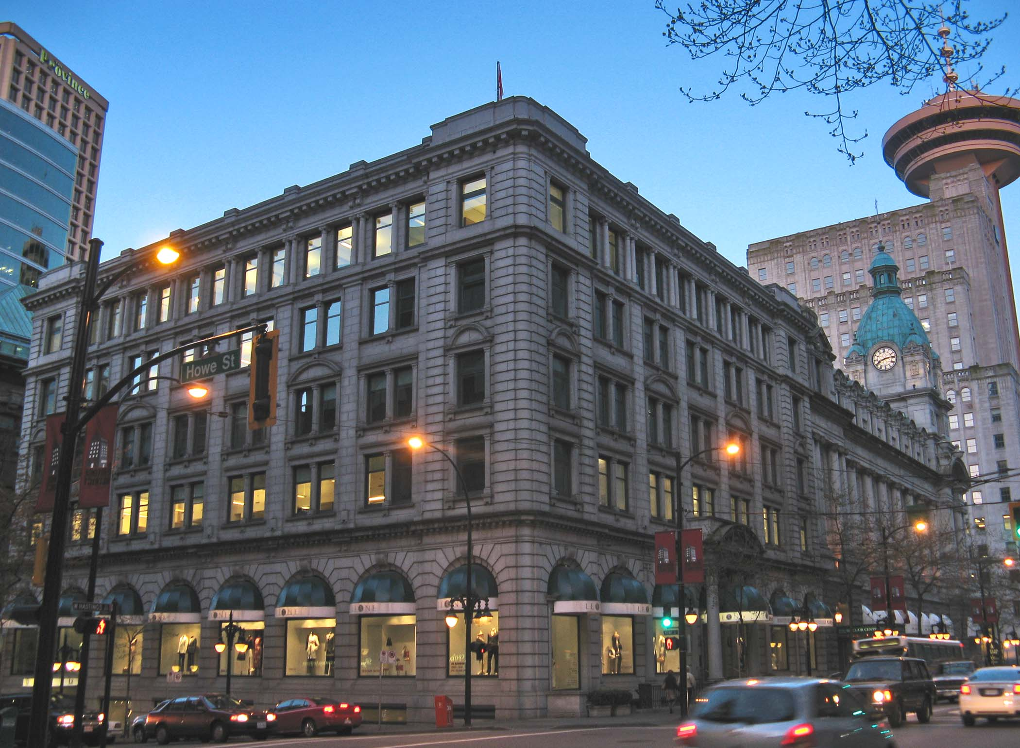 Winch Building/Sinclair Centre, Vancouver. Taken by me on 20 April 2007.